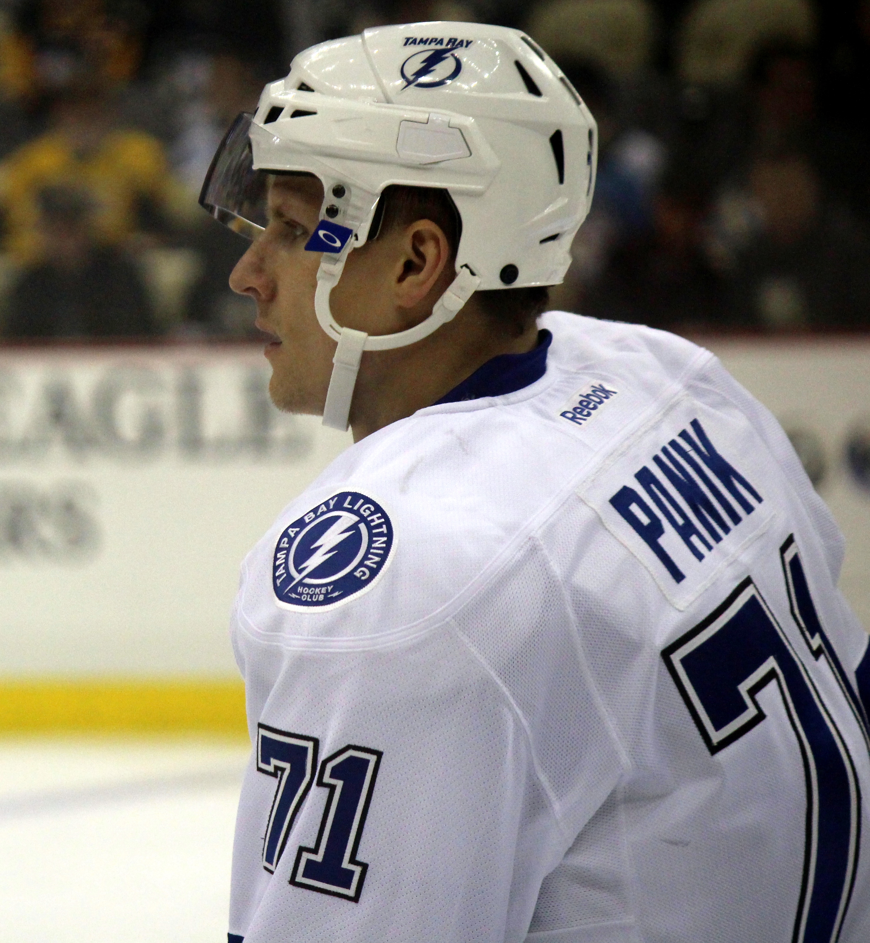 Tampa Bay Lightning forward Richard Panik skates against the Pittsburgh Penguins, March 22, 2014, at Consol Energy Center in Pittsburgh, PA.